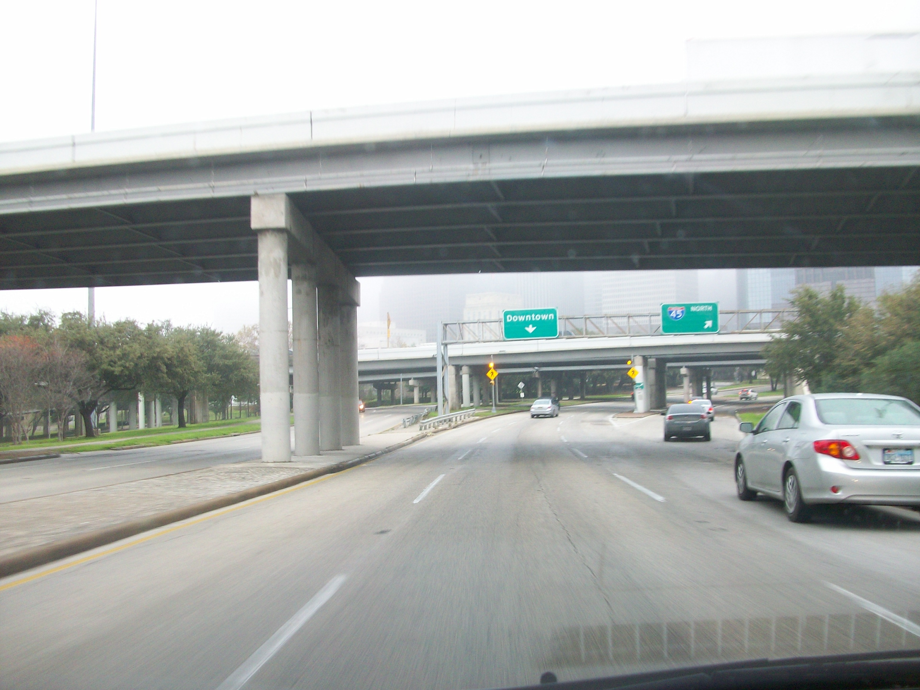 Eastbound Allen Parkway, Houston, TX